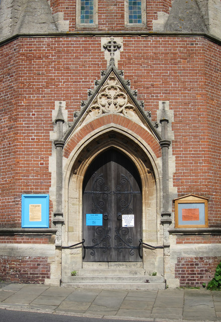 Entrance to Bell Tower